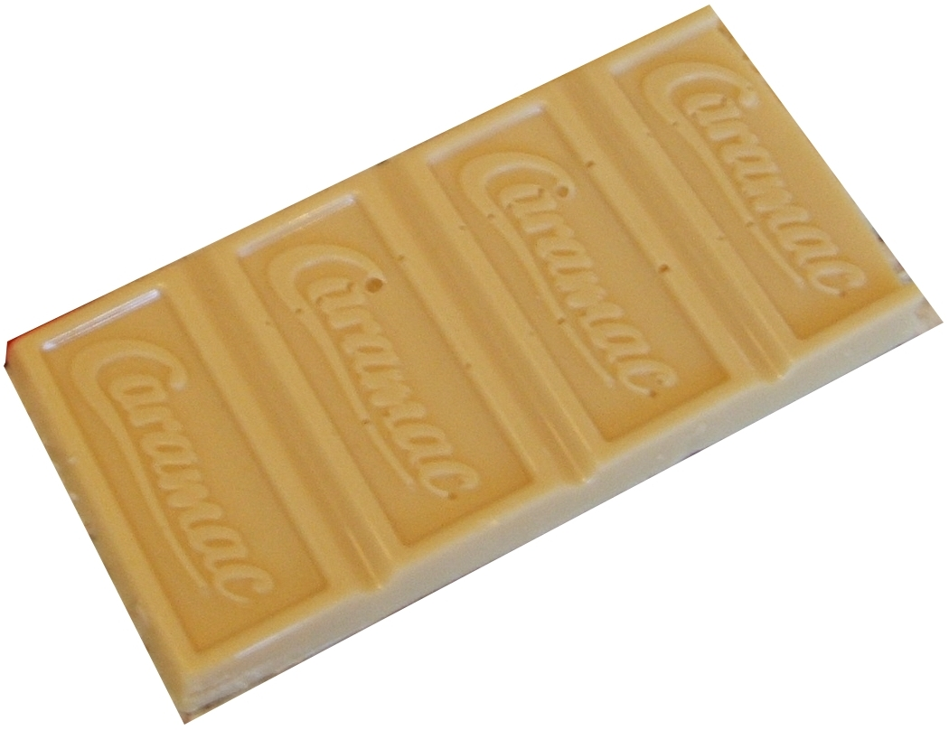 Photo of a Nestlé Caramac bar